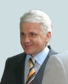 Volodymyr Lytvyn, a Ukrainian politician.